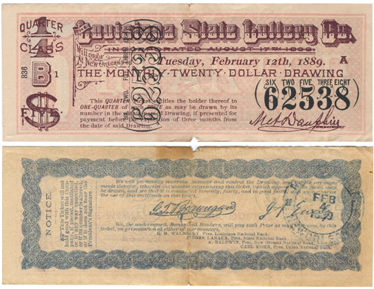 Louisiana State Lottery ticket from 1889. Front and back of "Quarter Class" ticket for the drawing of February 12, 1889. Engraving on back of ticket includes signature of P.G.T. Beauregard.